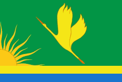 Shatura (Moscow oblast), flag